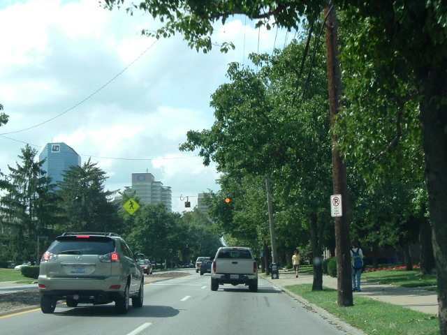 North Broadway at Transy